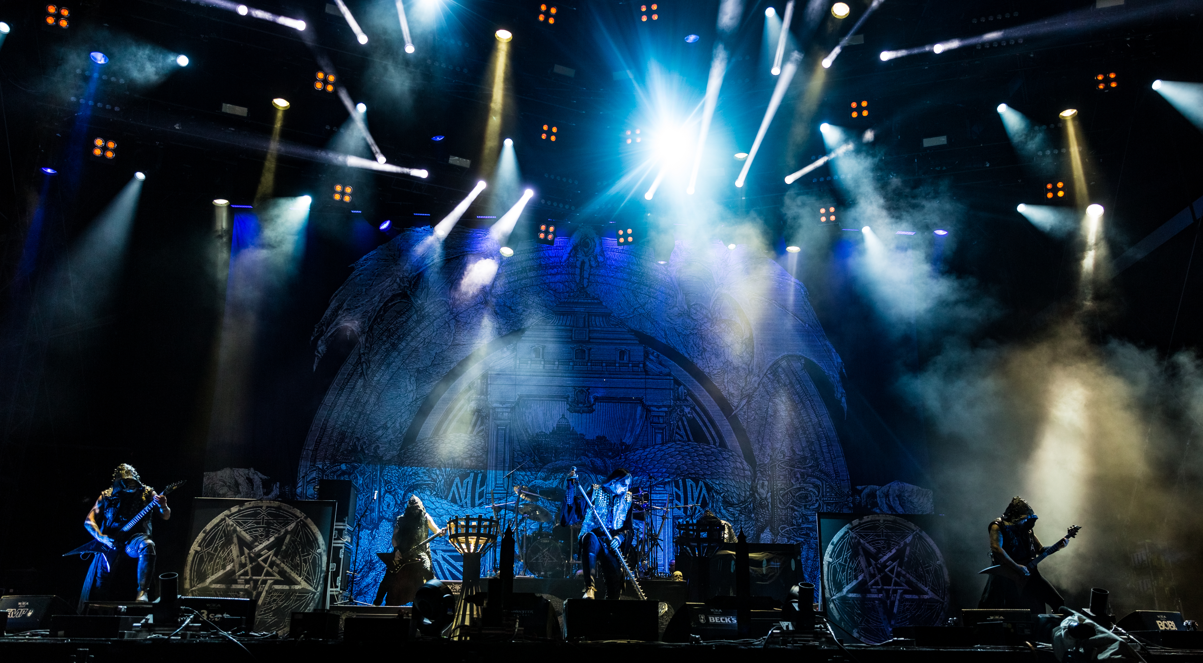 Dimmu Borgir - Wacken Open Air 2018